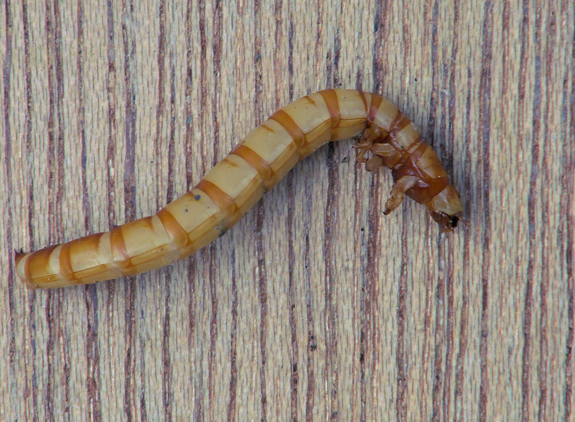 Tenebrio molitor